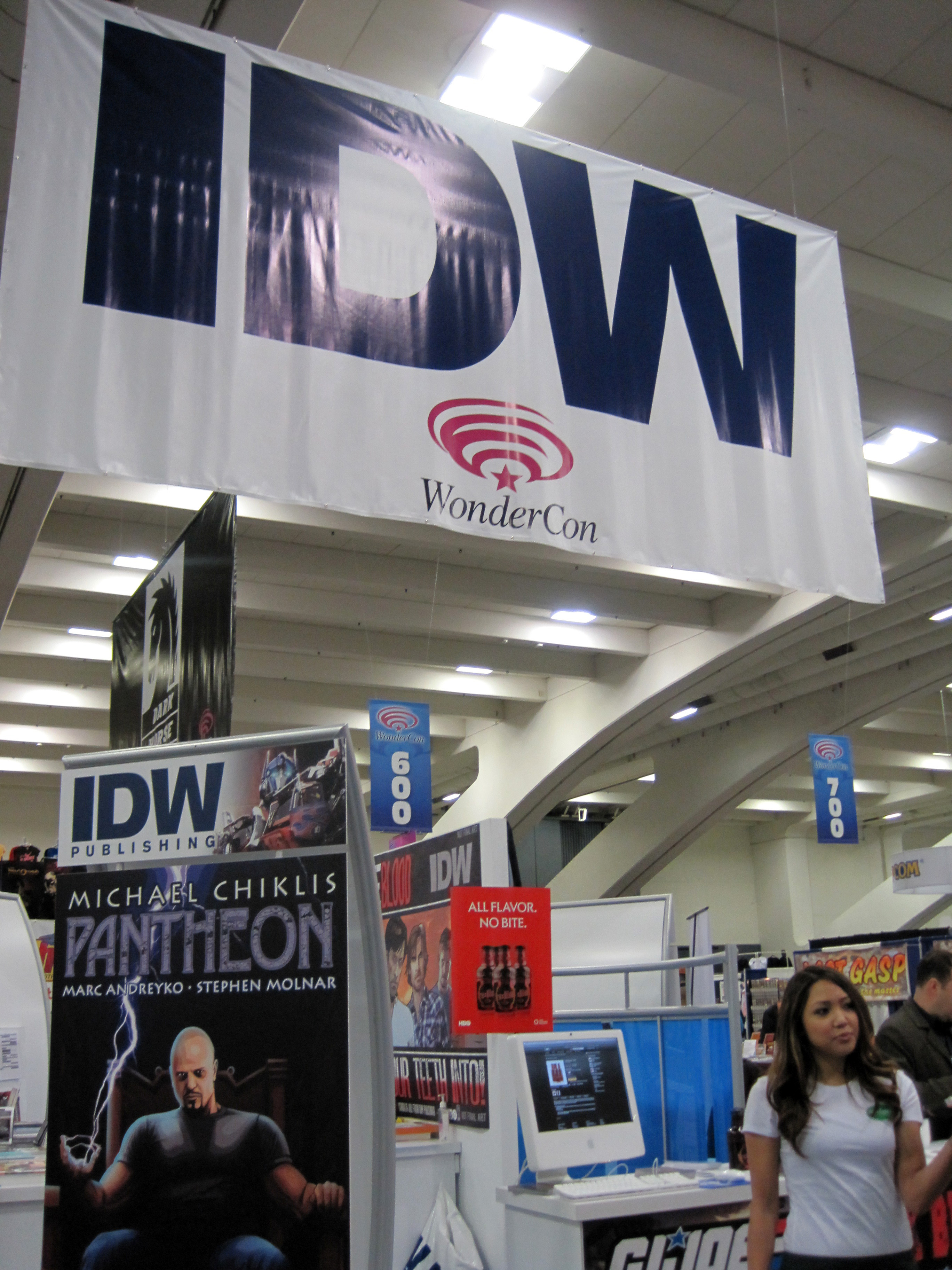 The IDW Publishing booth at WonderCon 2010.